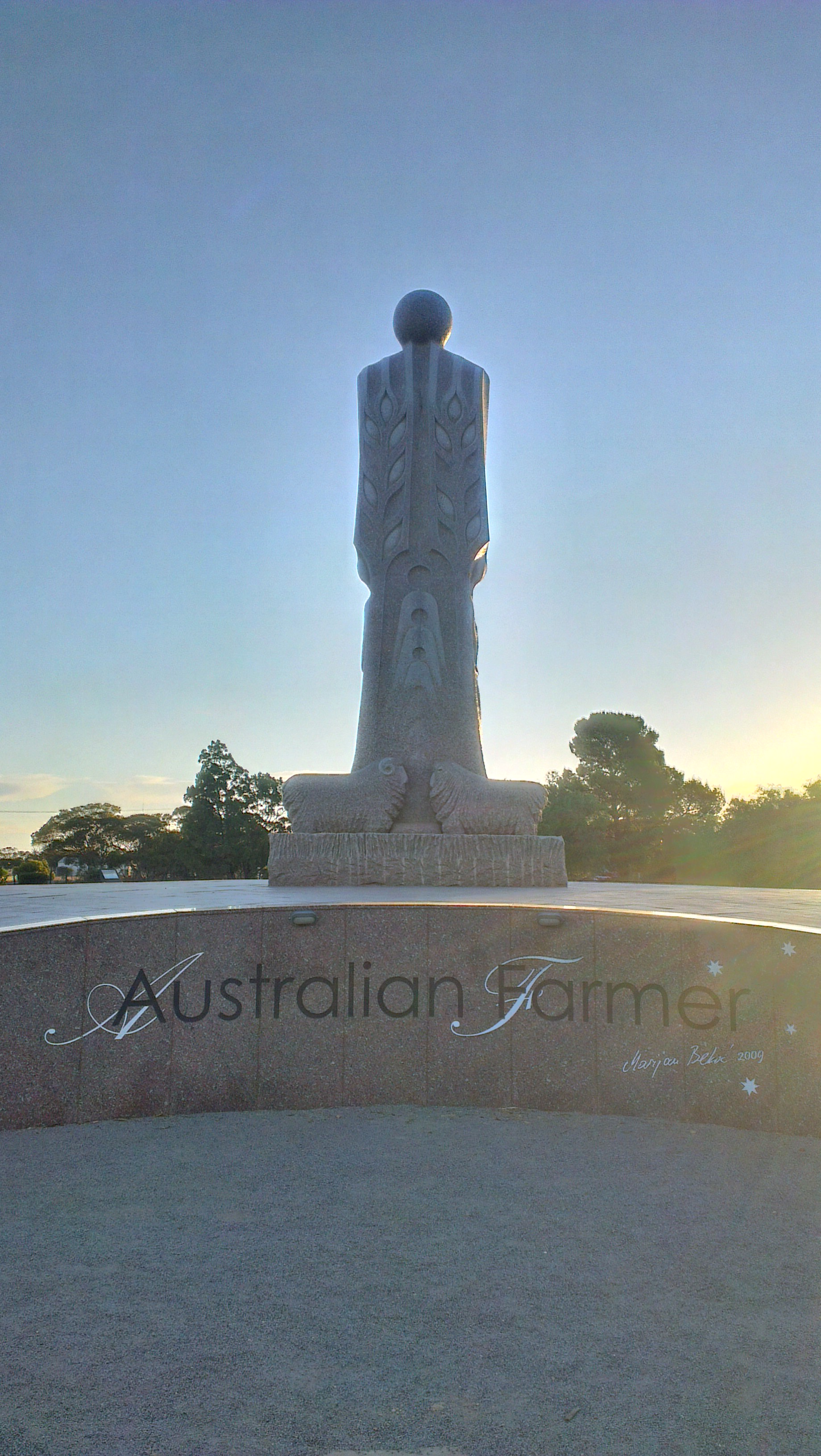 Picture of the Australian Farmer statue in Wudinna